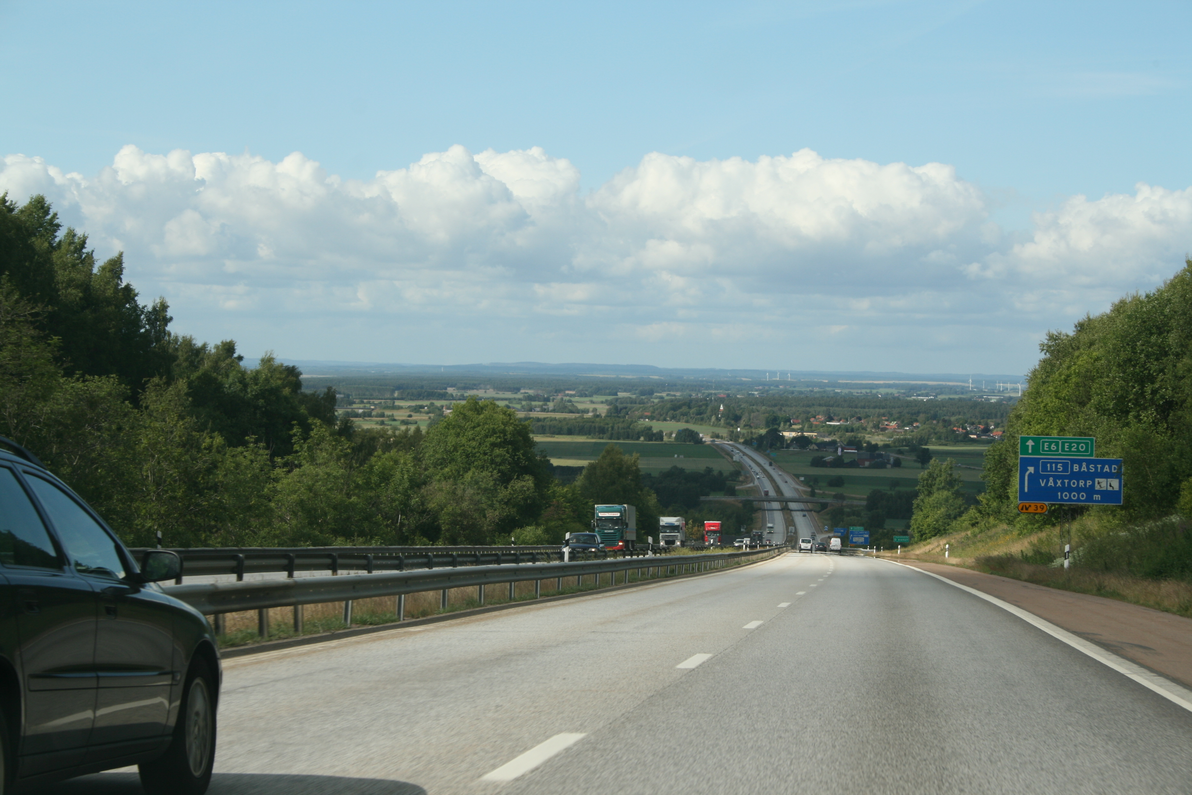 Swedish motorway E6